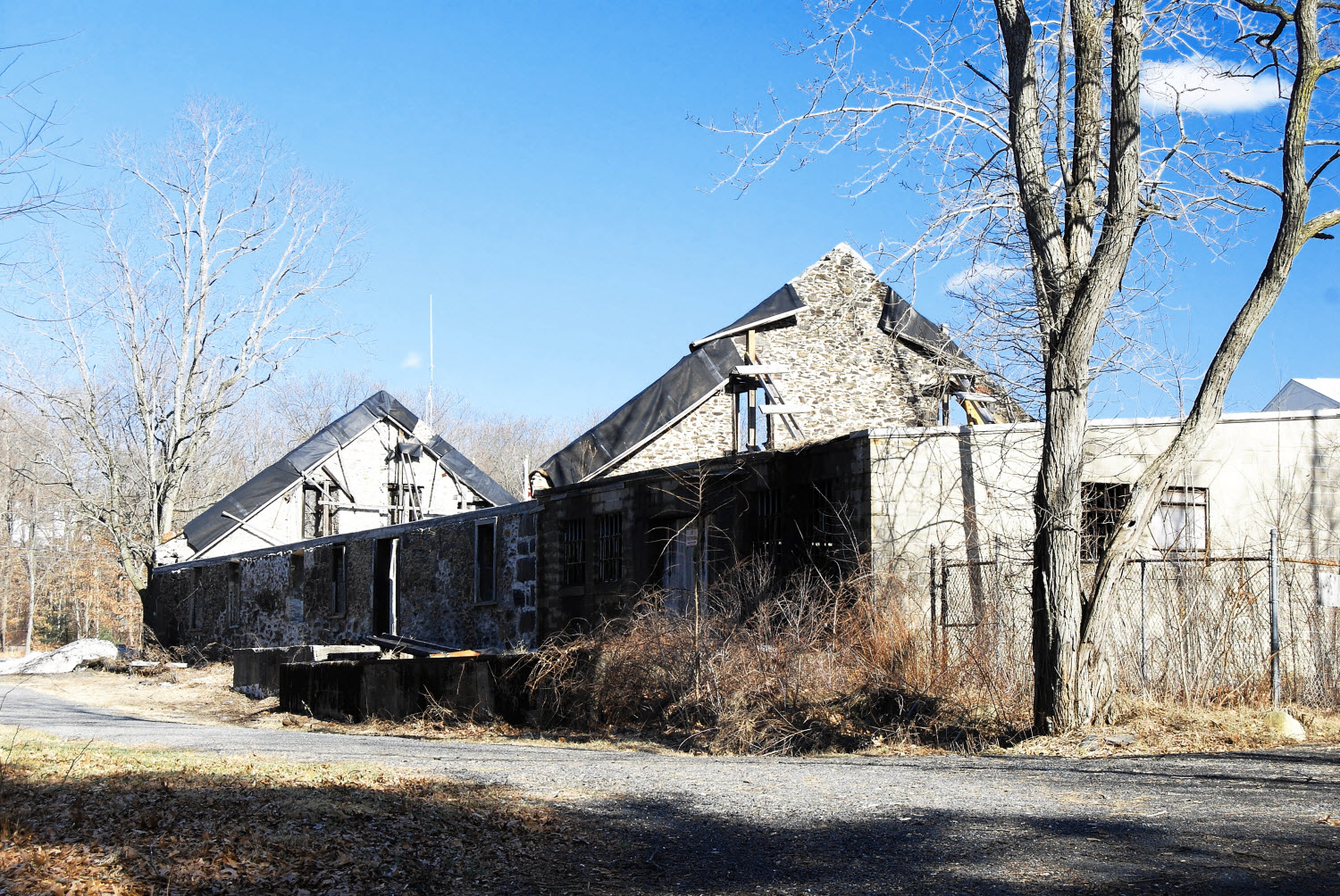 Remains of storage building, Bridgewater Iron Works site, Bridgewater, Massachusetts. The only remnants of any of the iron works buildings remaining.